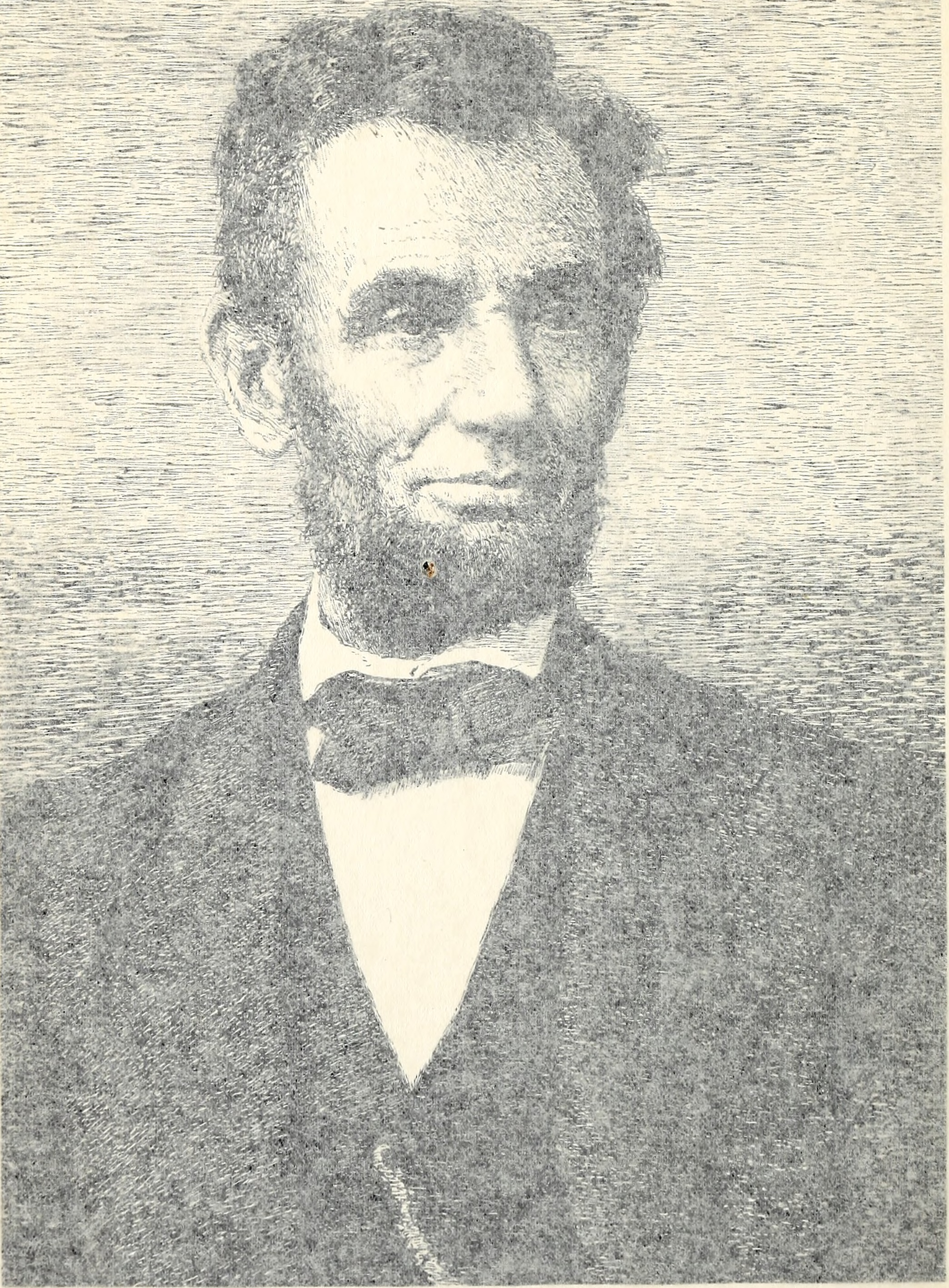 Title: Abraham Lincoln : a history Year: 1914 (1910s) Authors: Nicolay, John G. (John George), 1832-1901 Hay, John, 1838-1905, joint author Subjects: Lincoln, Abraham, 1809-1865 Presidents Publisher: New York : Century Co. Text Appearing Before Image: ' Text Appearing After Image: ABRAHAM LINCOLN, ■ ABRAHAM LINCOLN A HISTORY BY JOHN G. NICOLAYAND JOHN HAY VOLUME SEVEN